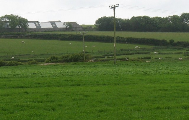 The site of Bedd Branwen The Welsh Mabinogion sagas have associated this Bronze Age burial site with the grave of Branwen (Bedd Branwen), the daughter of Llyr (King Lear of Shakespeare fame). Having suffered years of abuse at the hands of her Irish husband, Matholwch, the High King of Ireland, she died of a broken heart and was brought by boat to be buried on the banks of the Alaw. The tomb, however, is much older than the mythical age of the Mabinogion and dates from about 4000 years ago. It, like Branwen, suffered abuse, being dismantled by a local farmer around 1813. Later excavations at the site led to the finding of a number of cremation vessels. The site is on private land, with no public access, but can be viewed at a distance from public footpaths.